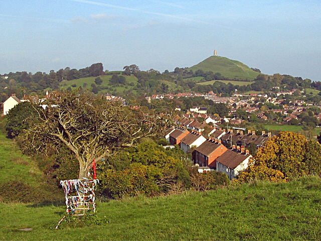 South Glastonbury from Wearyall Hill